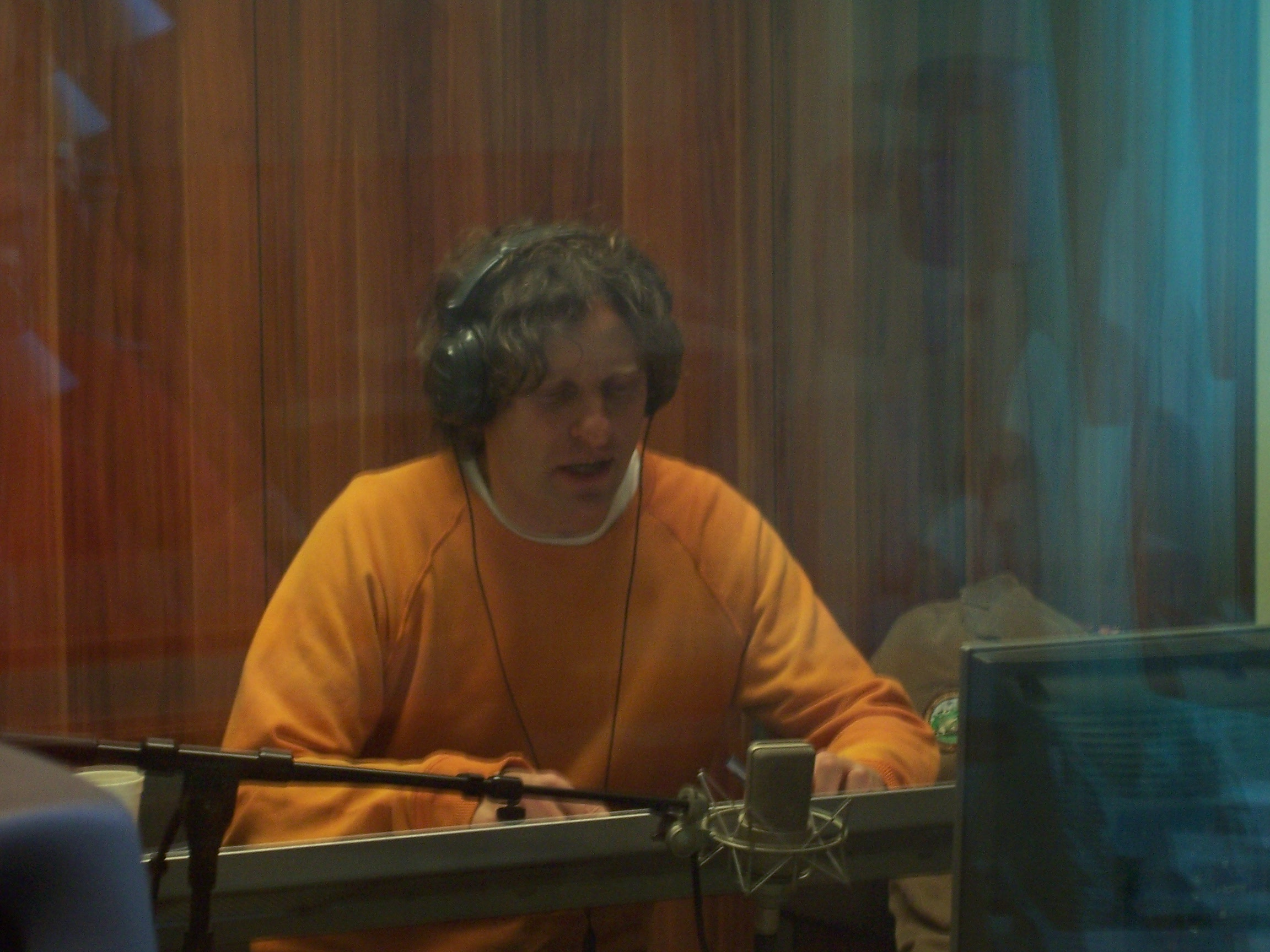 Czech actor David Prachař in dub studio.